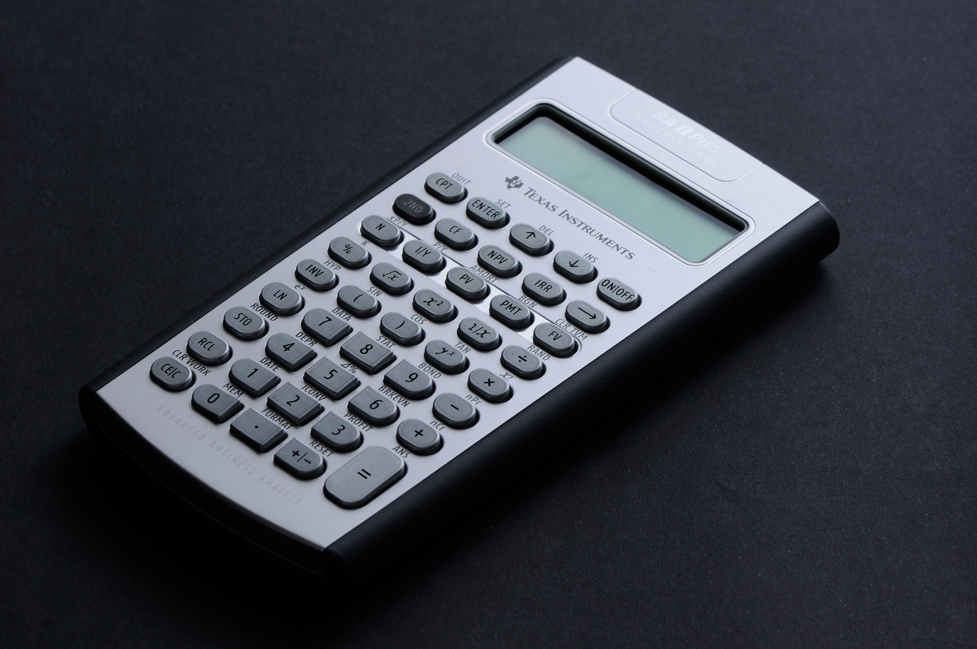 Texas Instrument BAII Plus Professional (TI-BA-II-Plus), one of the calculators that can be used in CFA and FRM exams.